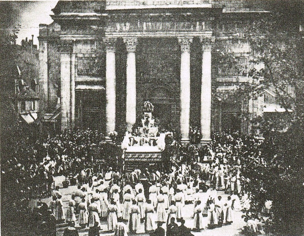 A christian ceremony in 1863 in Saint-Pierre church, in Besançon (Doubs, France)